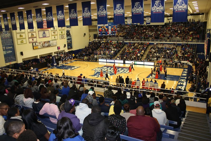 The Georgia State University Sports Arena during the 2011-12 season charity "bare foot" game for Samaritans Feet between Georgia State and UNC Wilmington